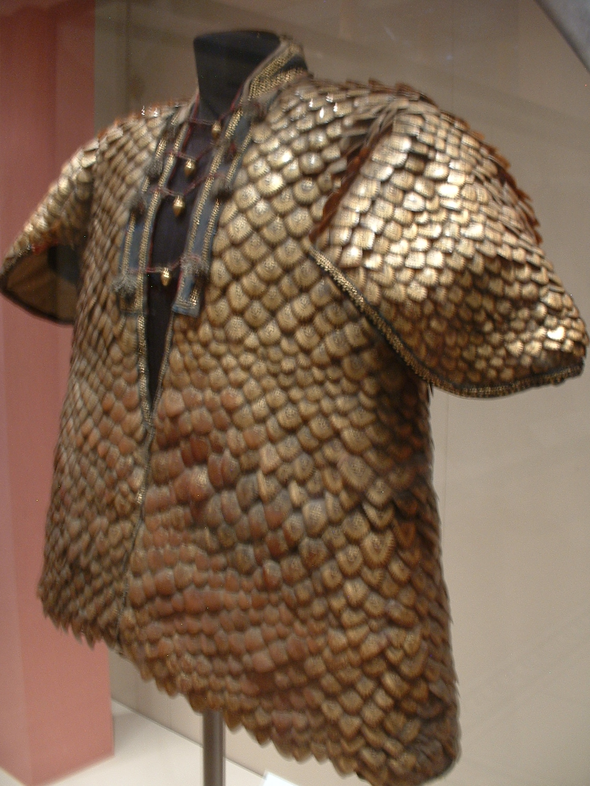 On display at the Royal Armouries, Leeds. Photographed by Gaius Cornelius on 08-Jun-06. Legend reads: Scale coat Indian, Rajasthan, early 19th century This coat has been covered with the scales of the pangolin or scaly anteater (Manis crassicaudata). The scales have been decorated in gold, and the larger have been used where more protection is required. This is the only known example of this type of armour. It originally had a helmet, also made of pangolin scales, with three plumes. The scale coat was presented to the King George III in 1820 by Francis Rawdon, 1st Marquis of Hastinges (1754-1826), who was the East India Company's Governor General in Bengal, 1812-22.